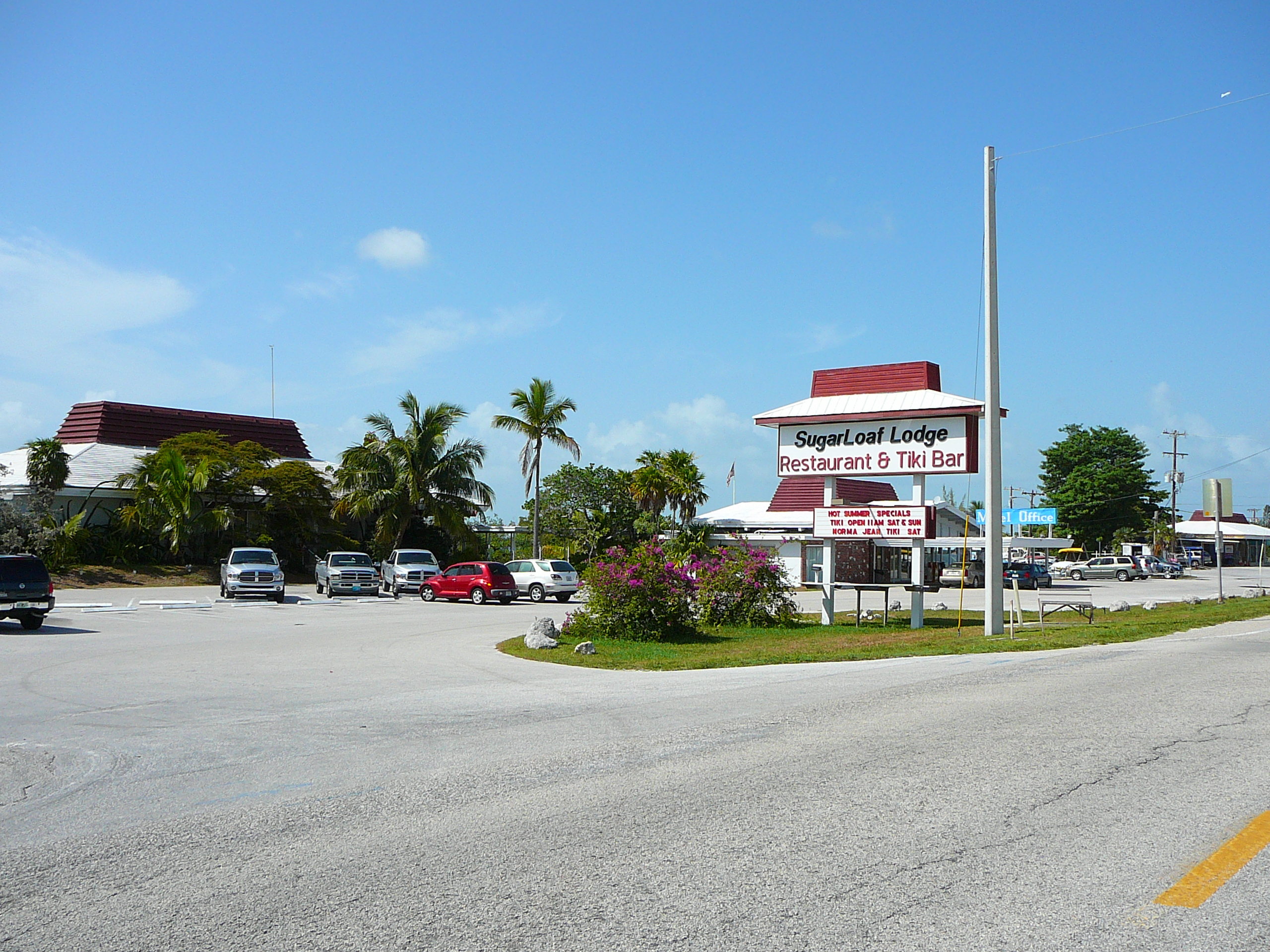 Digital photo taken by Marc Averette. Lower Sugarloaf Key in the Florida Keys